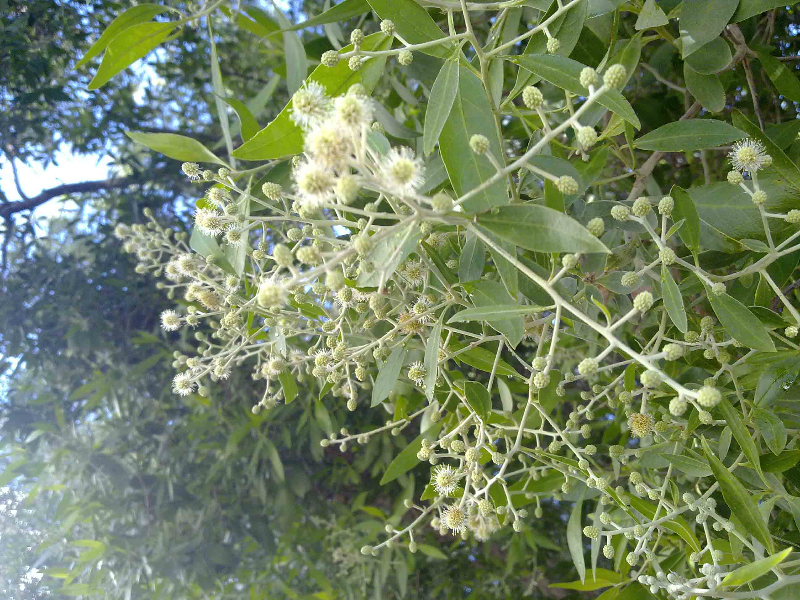 a blossomed dessert plant